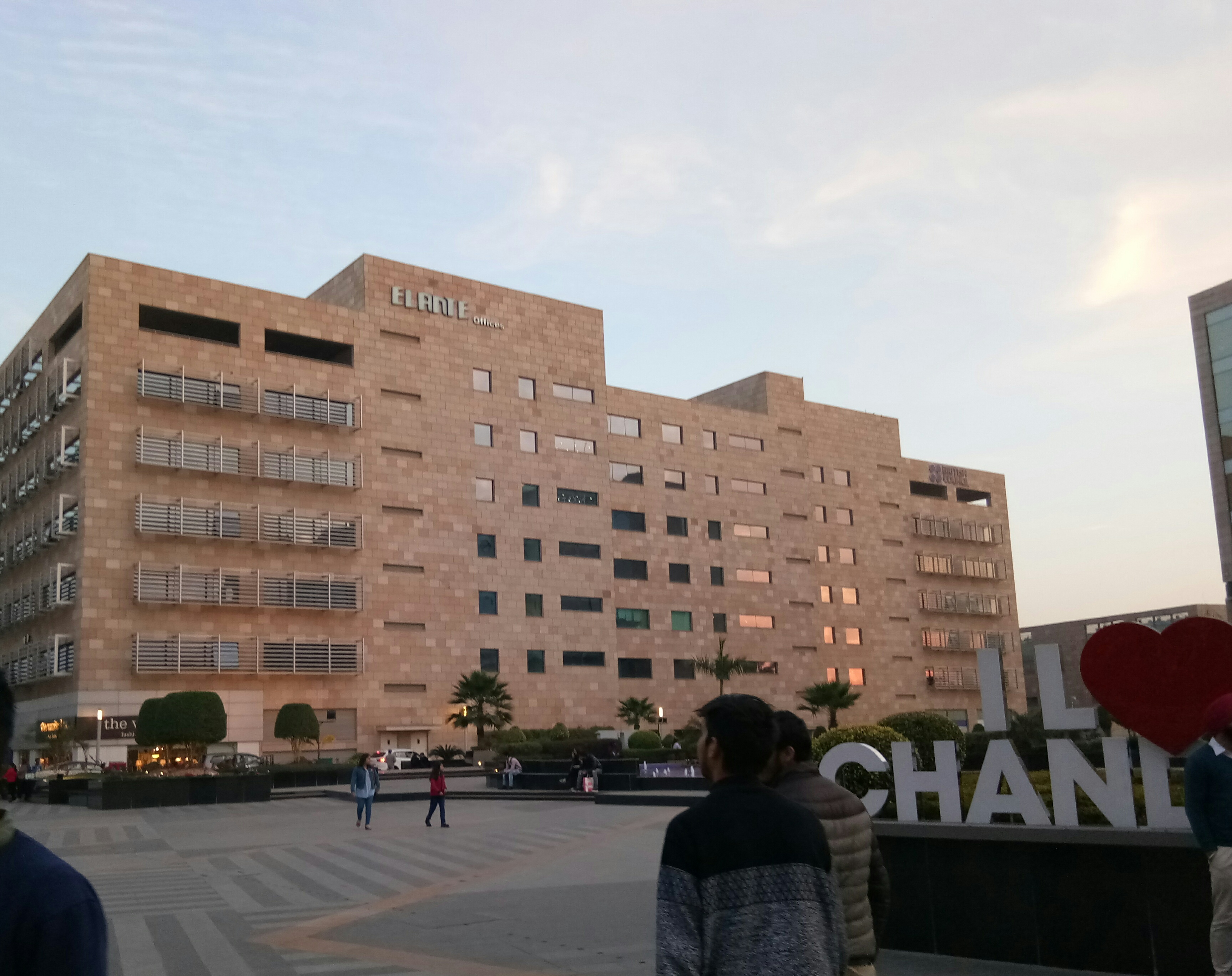 Elante mall is one of the biggest malls of India located in the union territory of Chandigarh.